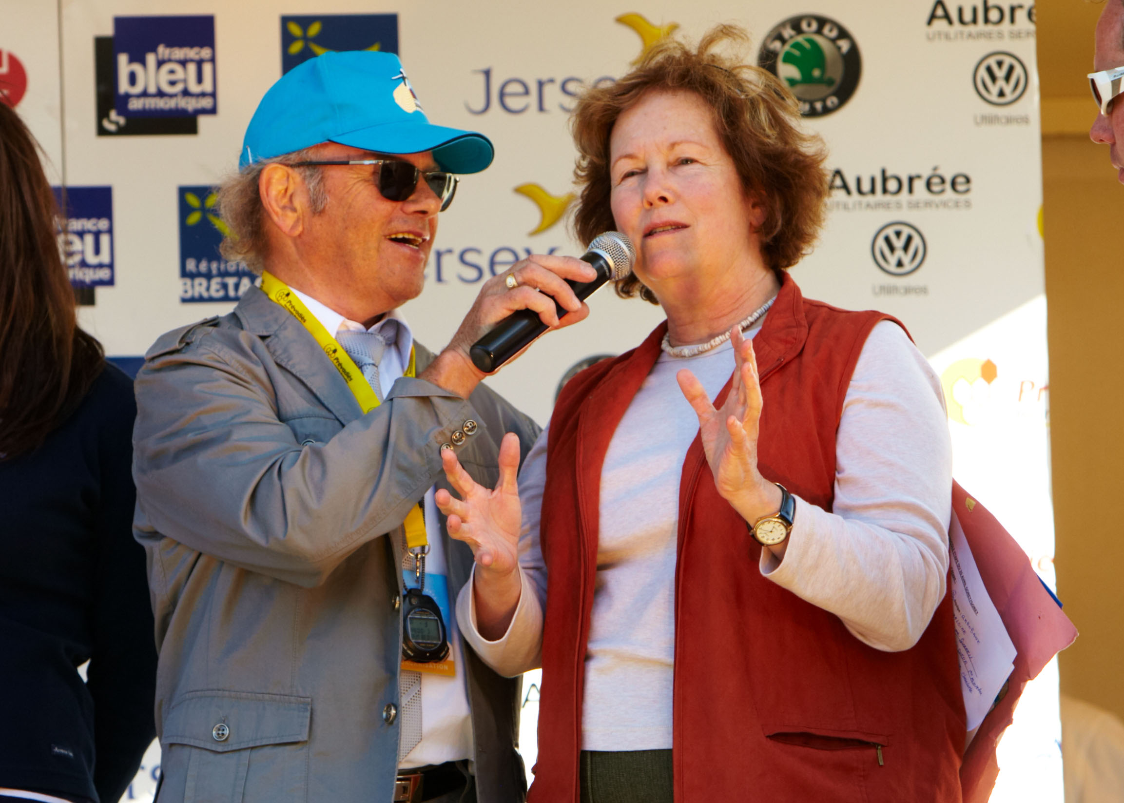 Over a hundred professional riders, with teams competing from all over the world including members of the British National cycle team, took part in the opening stage of the Tour de Bretagne 2010. It was the first time the event, escorted by the President of France's Garde Républicaine motorcyclecade, had left its native shores of Brittany, France. It was a spectacular day.